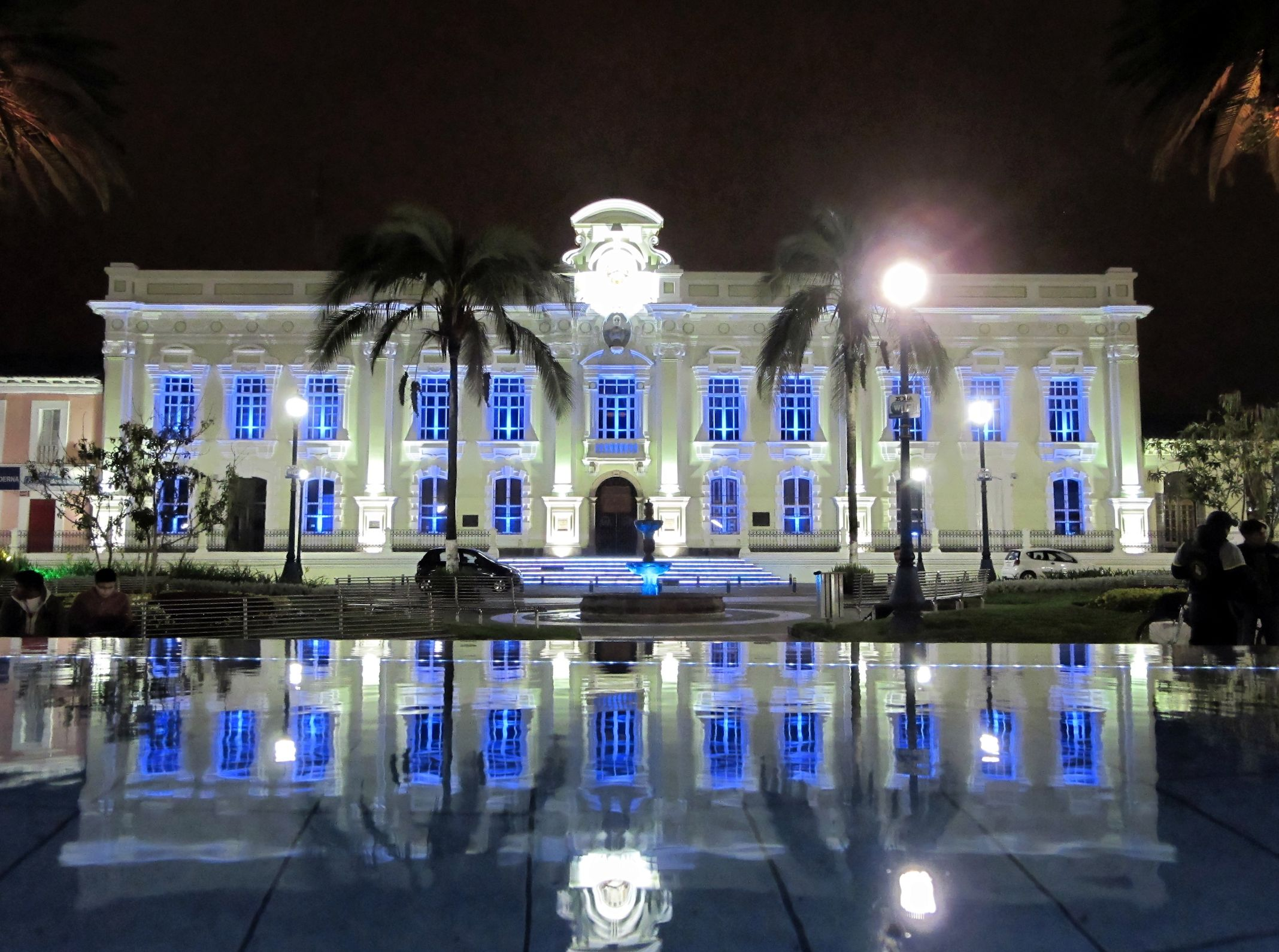 City of Otavalo in Ecuador, City Hall